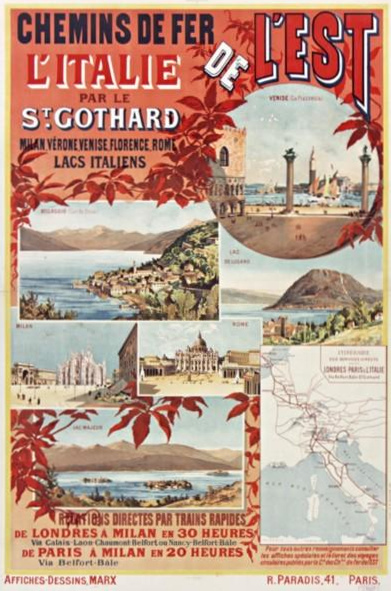 Affiche de la Compagnie des chemins de fer de l'Est : l'Italie par le St-Gothard.